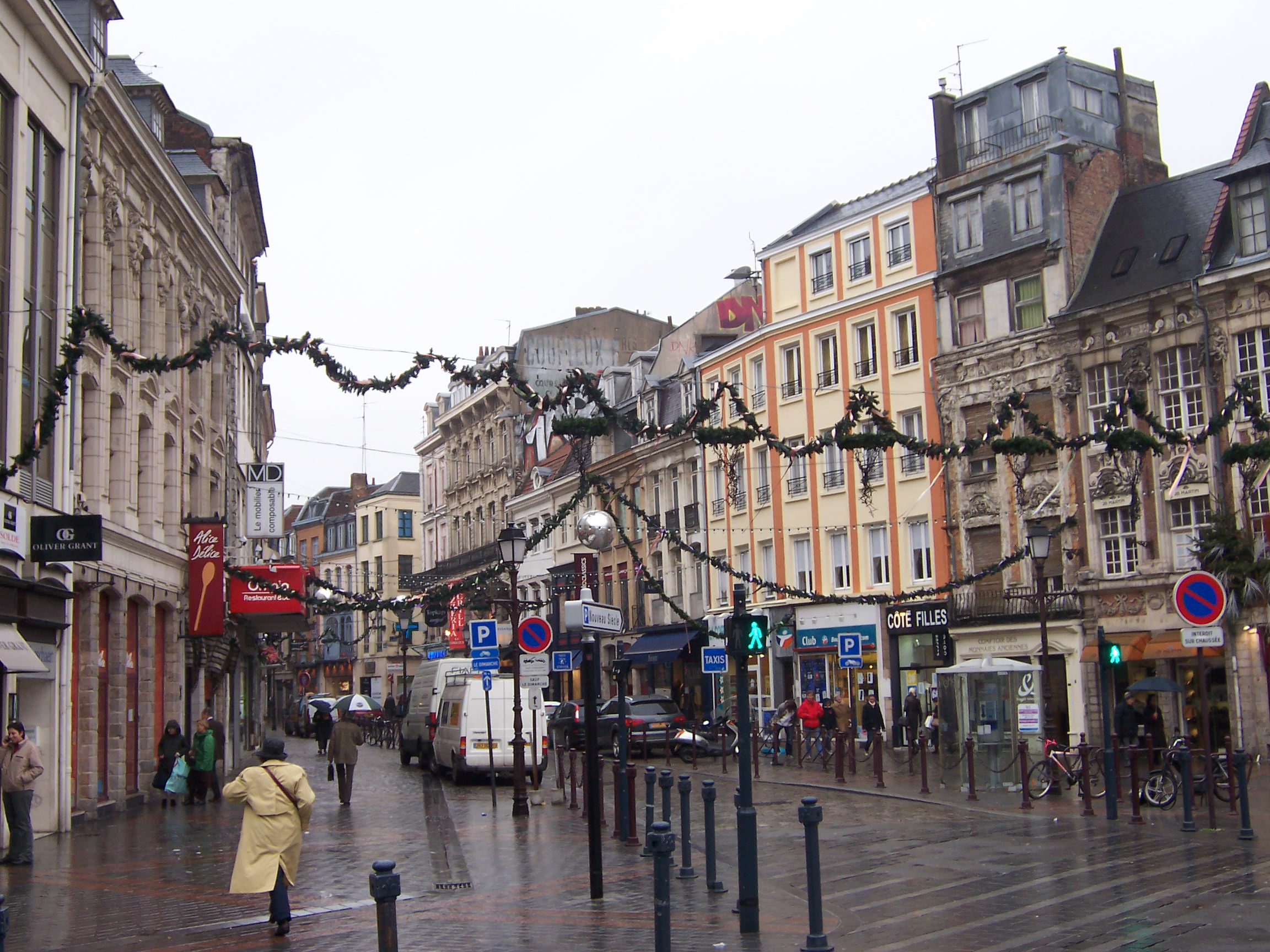 the entrance of rue Esquermoise from the Grand Place, in Lille (France)